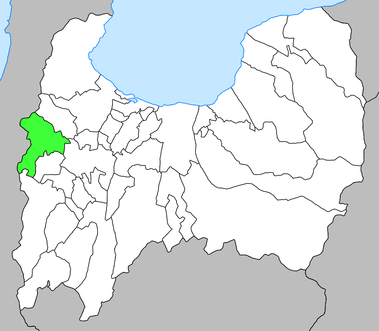 Map of Isurugi-machi, Toyama Prefecture